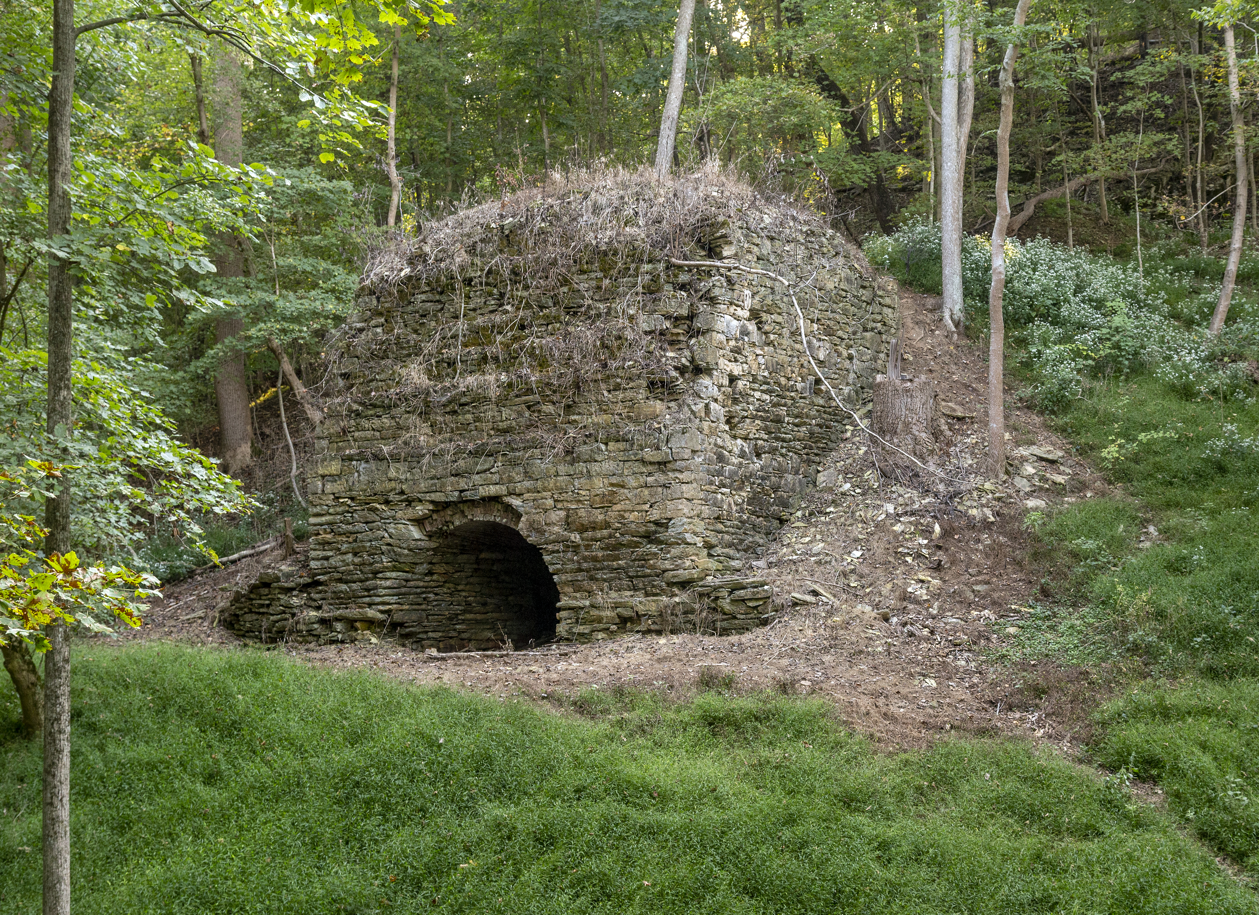 The lime kiln at Potomac Mills, near Shepherdstown, West Virginia, USA